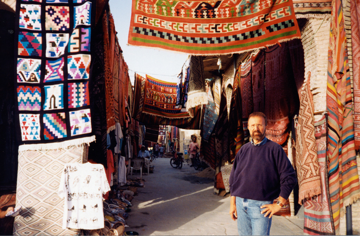 Gianfranco Zappettini in Tozeur, 1990s